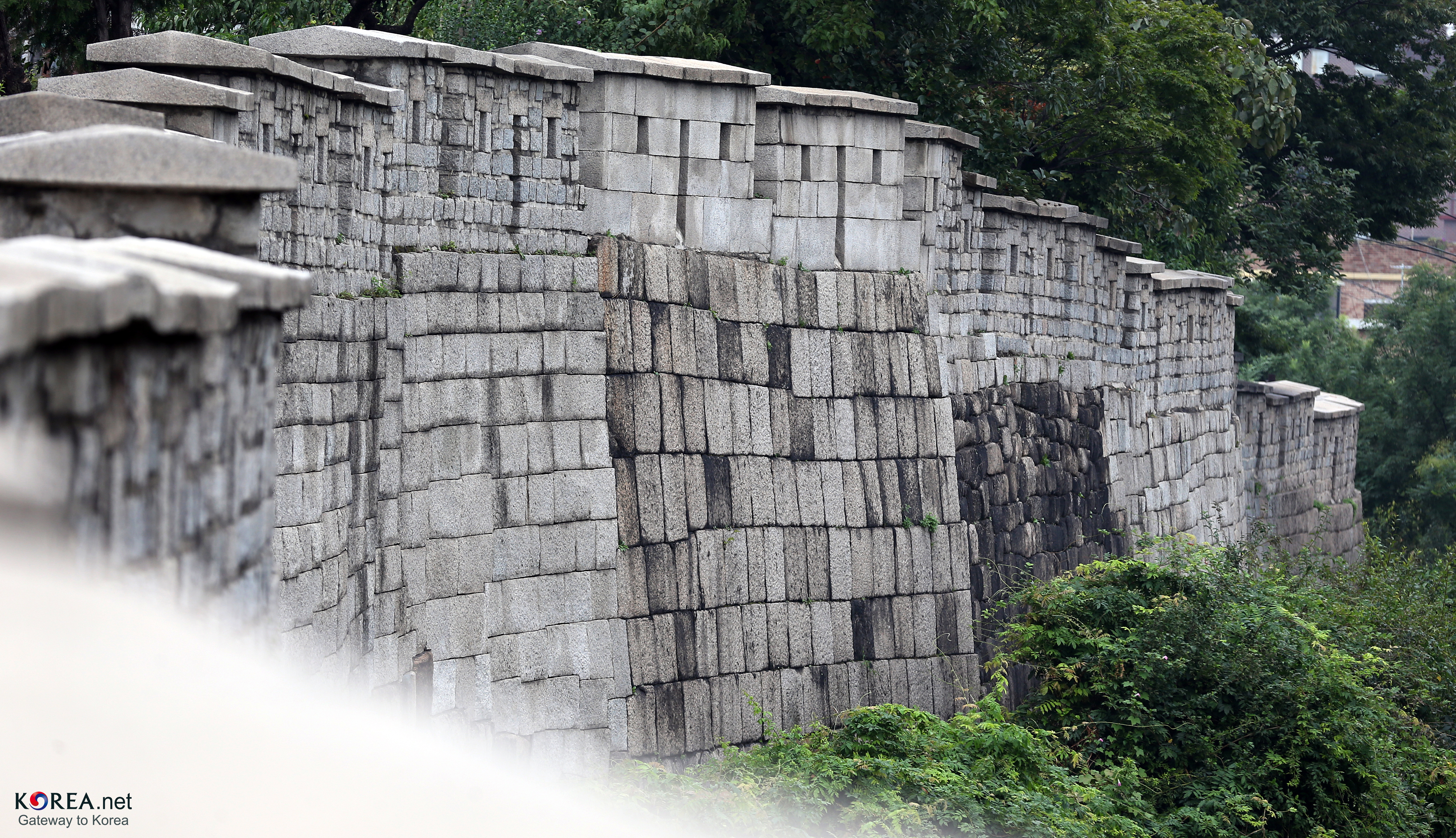 Seoul Fortress 2013.09.24. Fortress Park & Naksan Park, Seoul Ministry of Culture, Sports and Tourism Korean Culture and Information Service ( JEON HAN 서울 성곽 성곽공원 - 낙산공원, 서울 문화체육관광부 해외문화홍보원 코리아넷 전한